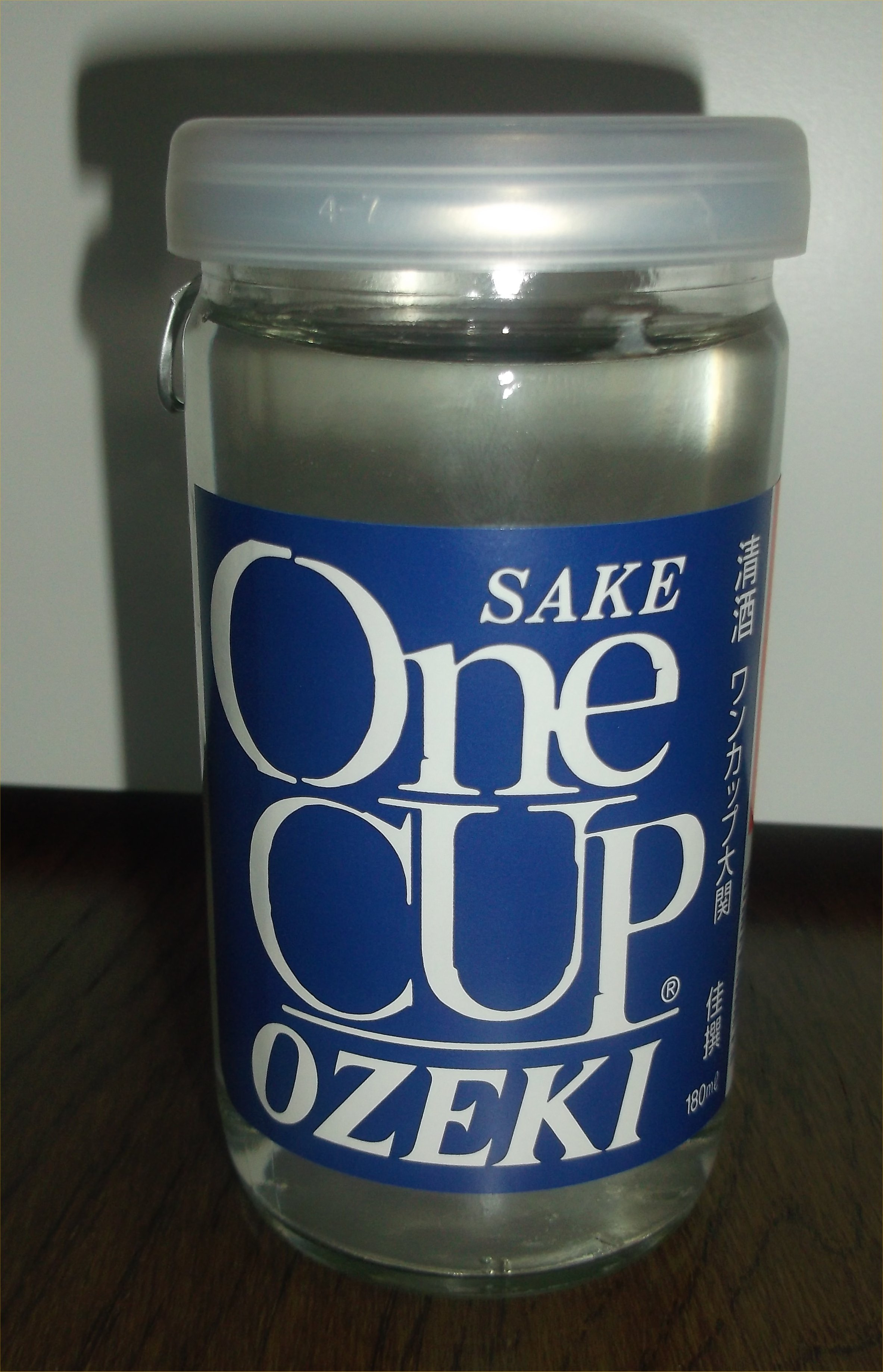 A photo of "One Cup Ozeki"(A cup containing "sake").